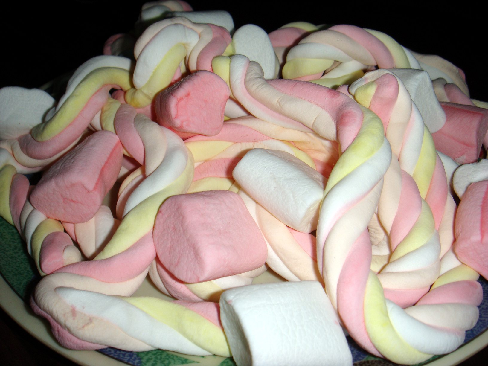 no description